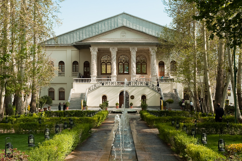 Bagh-e Ferdows Film Museum Of Iran Shemiran-Tehran